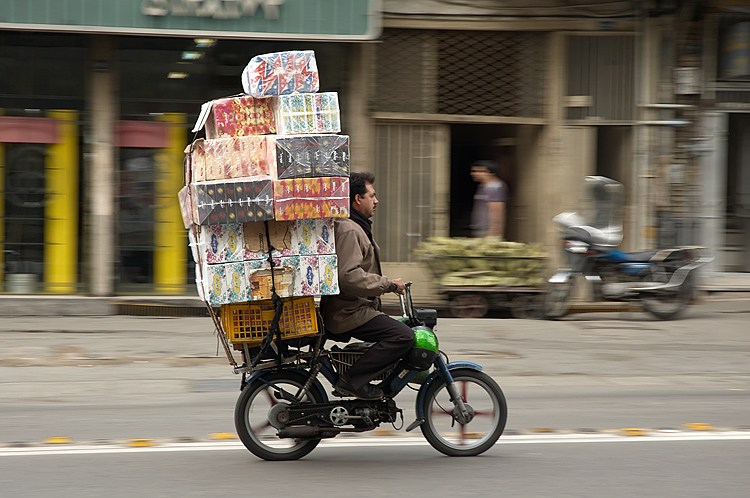 Near the Grand bazaar-Tehran